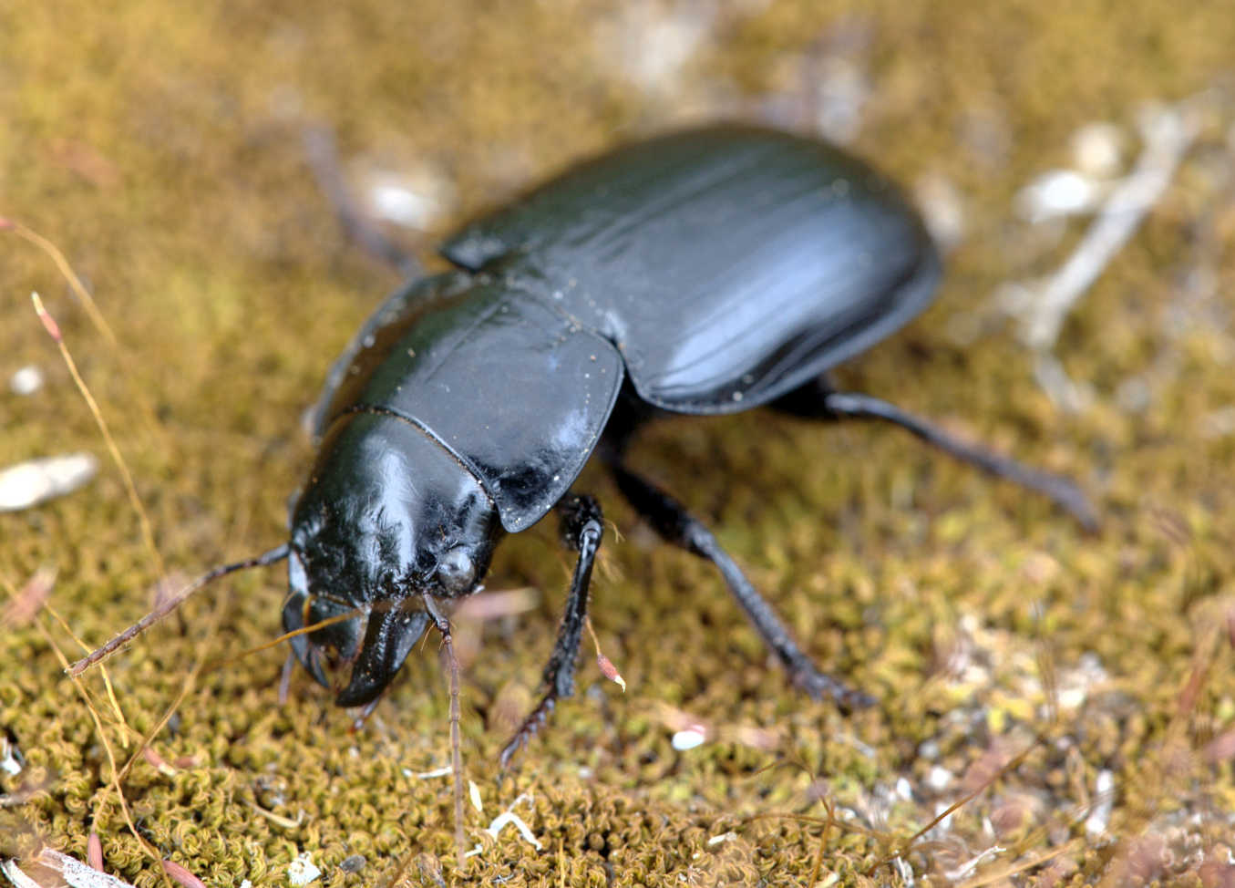 The picture was taken in Hungary near Tatárszentgyörgy.